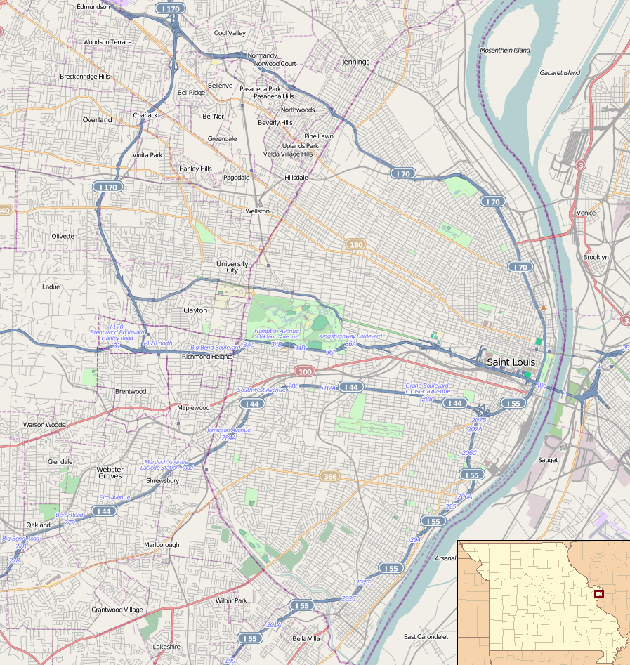 Map of St. Louis for pin Geographic limits of the map: N:38.7379° S: 38.5332° W: -90.4007° E: -90.1525°